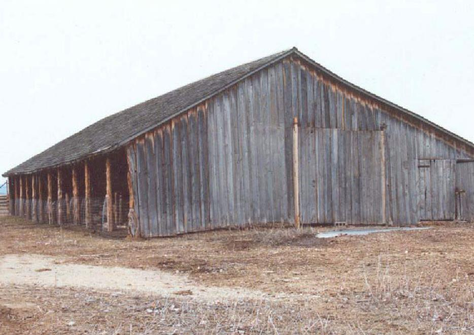 Original 1880s barn at the historic Sod House Ranch in Harney County, Oregon; the ranch is now part of the Malheur National Wildlife Refuge